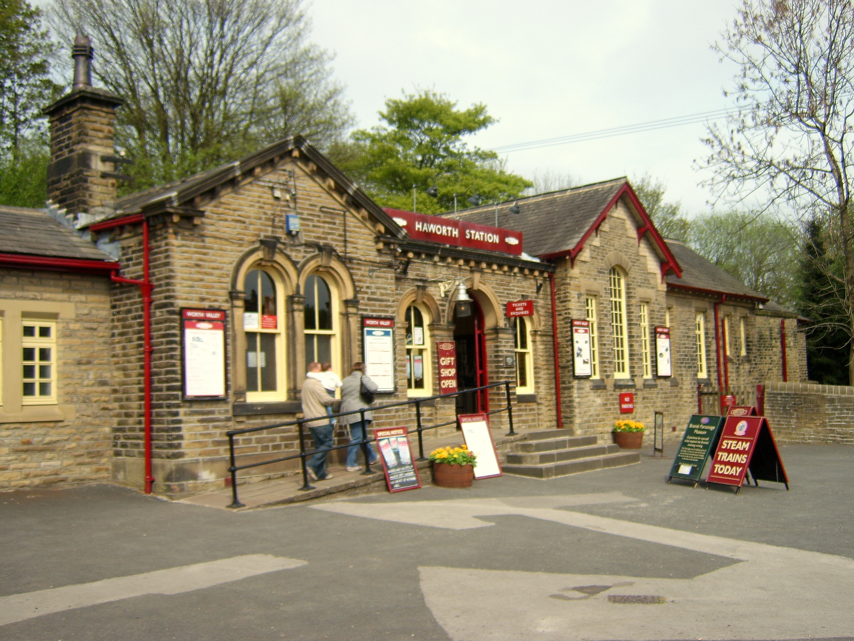 The entrance to the station building at Haworth Railway Station